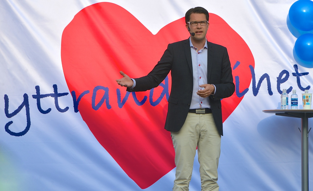 Sweden Democrats party leader Jimmie Akesson speaks on Norrmalmstorg in Stockholm 24 May 2014, the day before the European election.